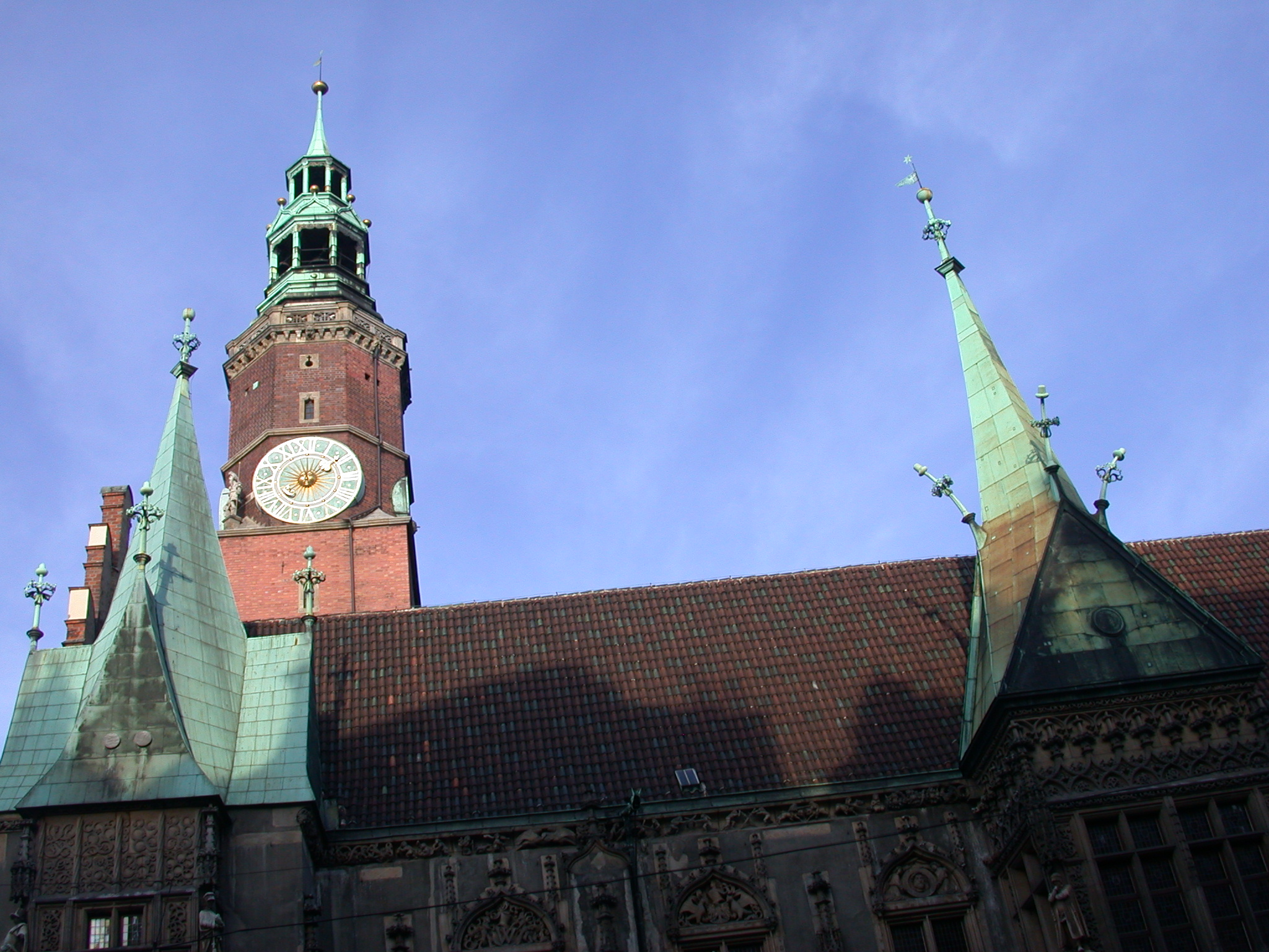 City hall in Wrocław (Poland).